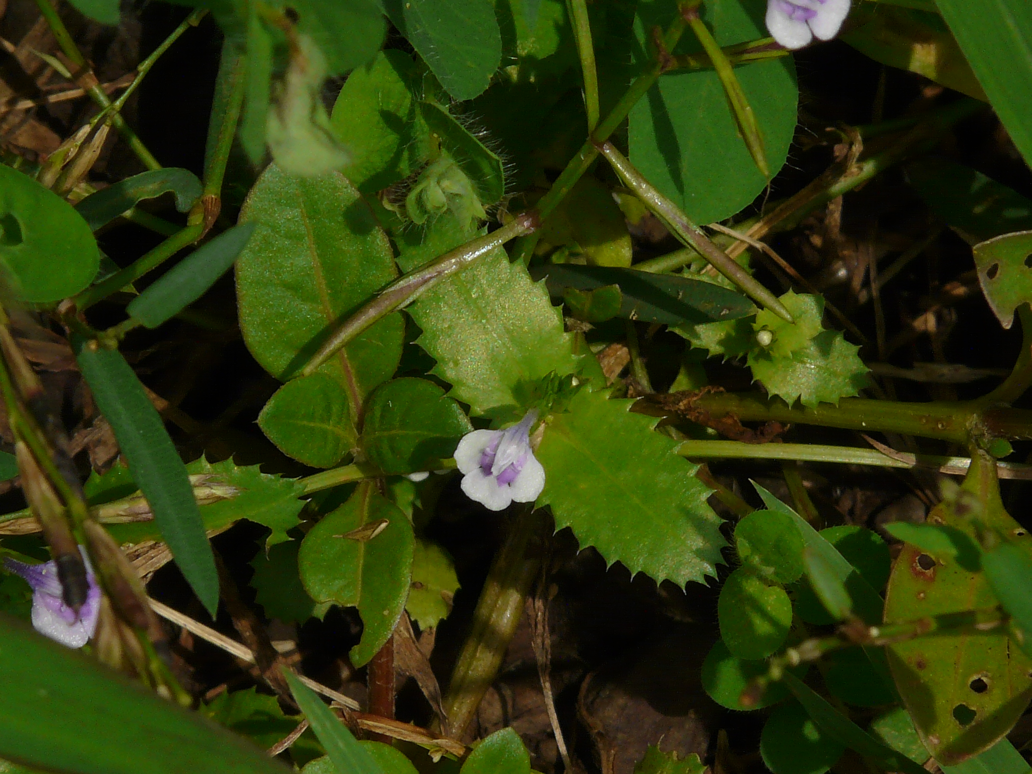 Scrophulariaceae (scrophularia, or figwort family) » Lindernia ciliata lin-DERN-ee-uh -- named for Franz Balthasar von Lindern, German botanist sil-ee-ATE-uh or sil-ee-AH-tuh -- meaning, fringed with hairs commonly known as: fringed false pimpernel, hairy slitwort •